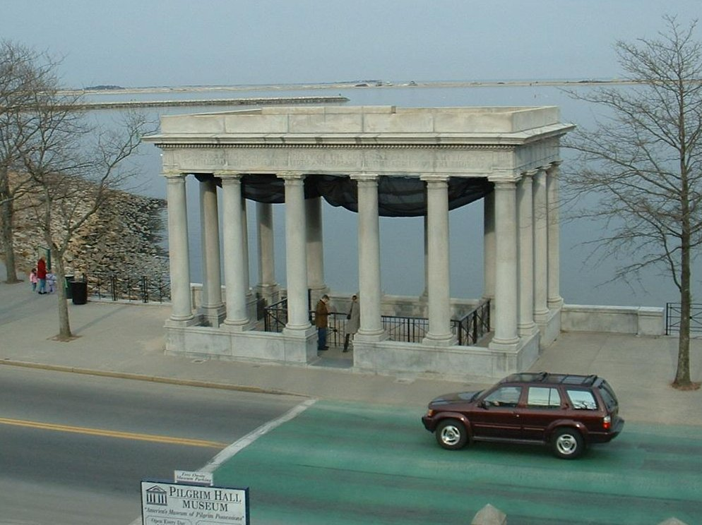 The Plymouth Rock Monument, along the edge of Plymouth Harbor. The rock was not actually located there originally, originally lying in the harbor and moved to the site in the early twentieth century. According to an apocryphal story, the person who originally identified the rock only knew it from family tradition. (Architects: McKim, Mead and White.)